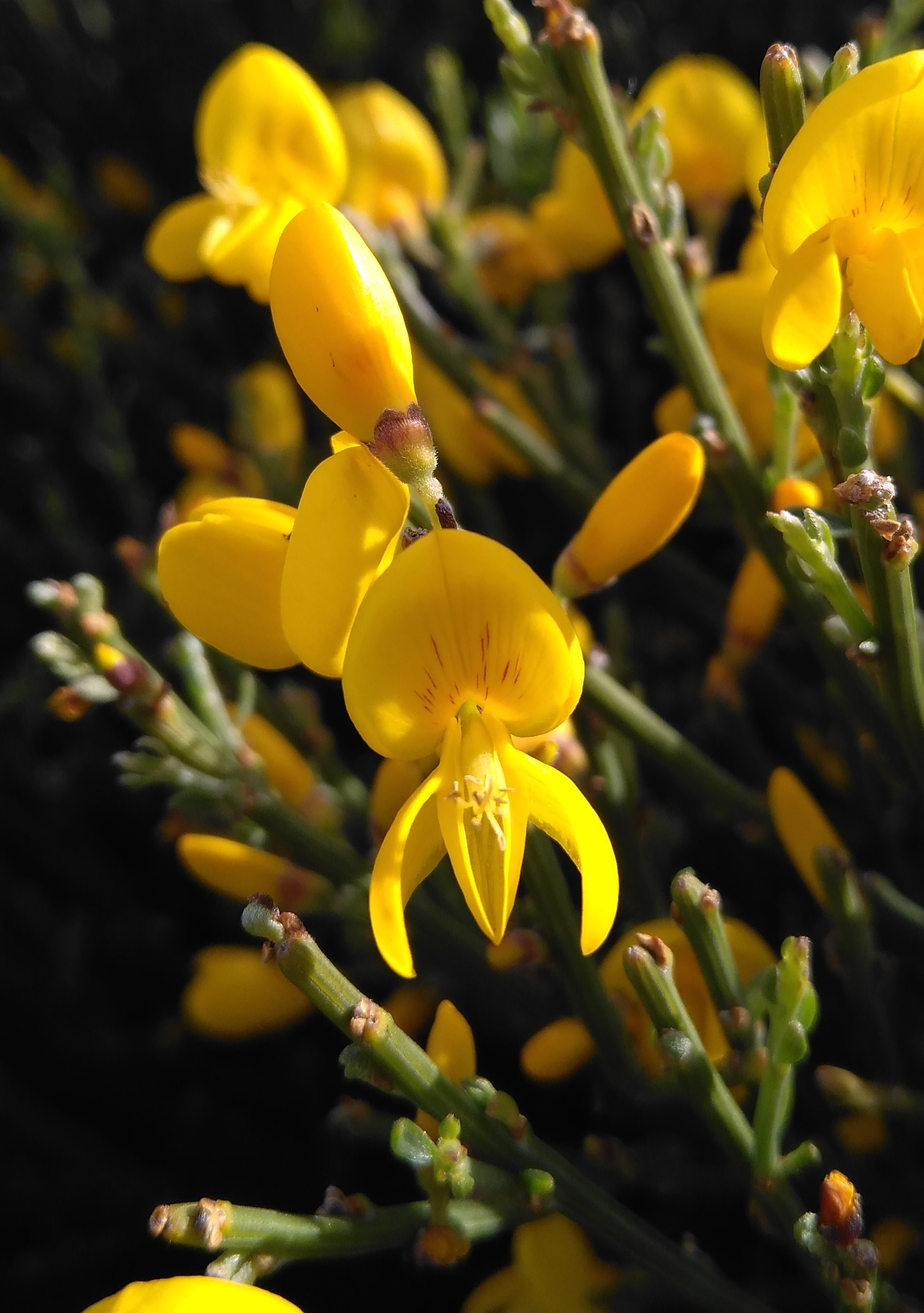 Cytisus oromediterraneus (Pyrenean broom, provence broom) in Bustarviejo, Community of Madrid. Detail of the flower.